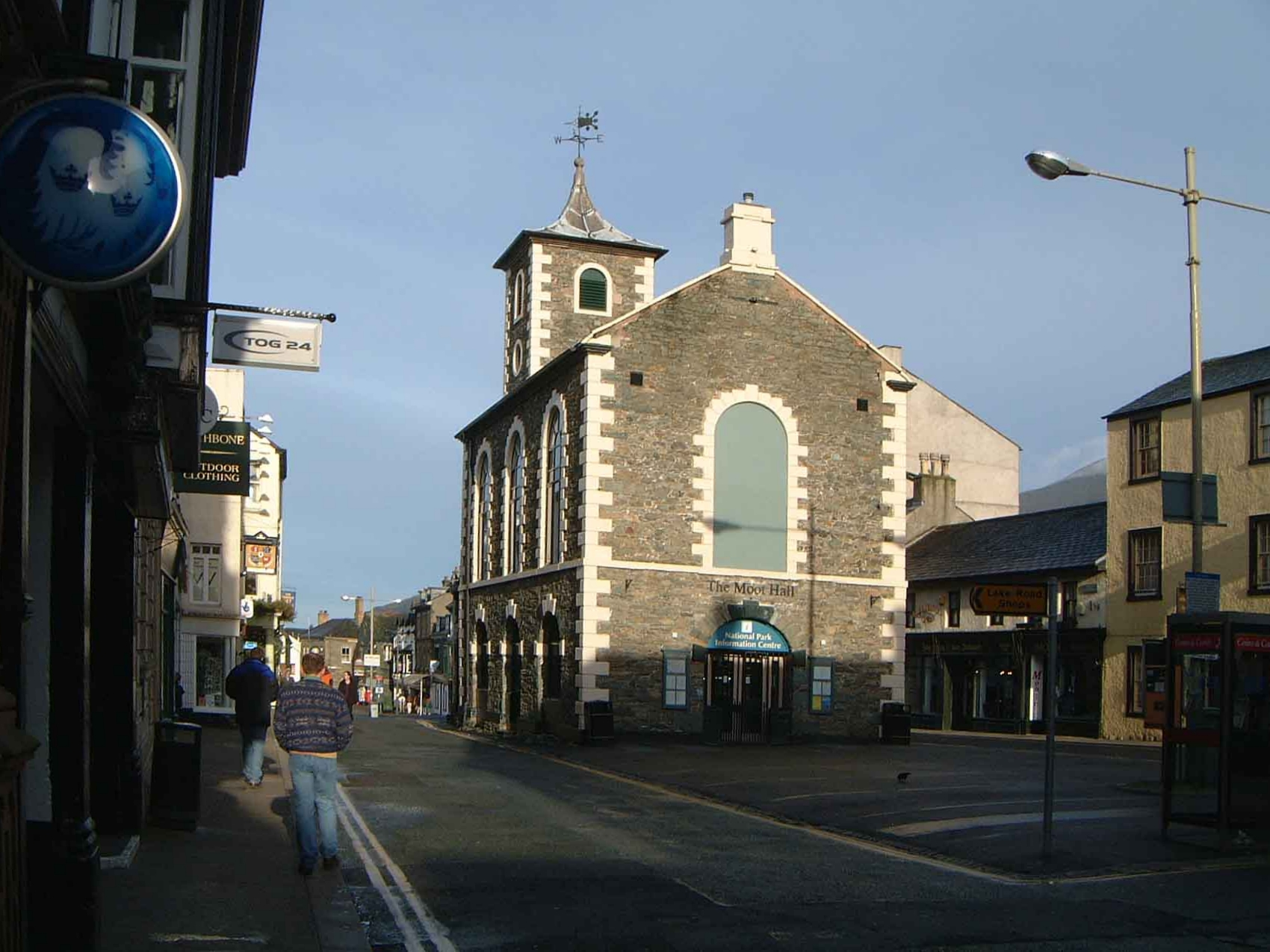 Personal photograph taken by Mick Knapton on 28th October 2001